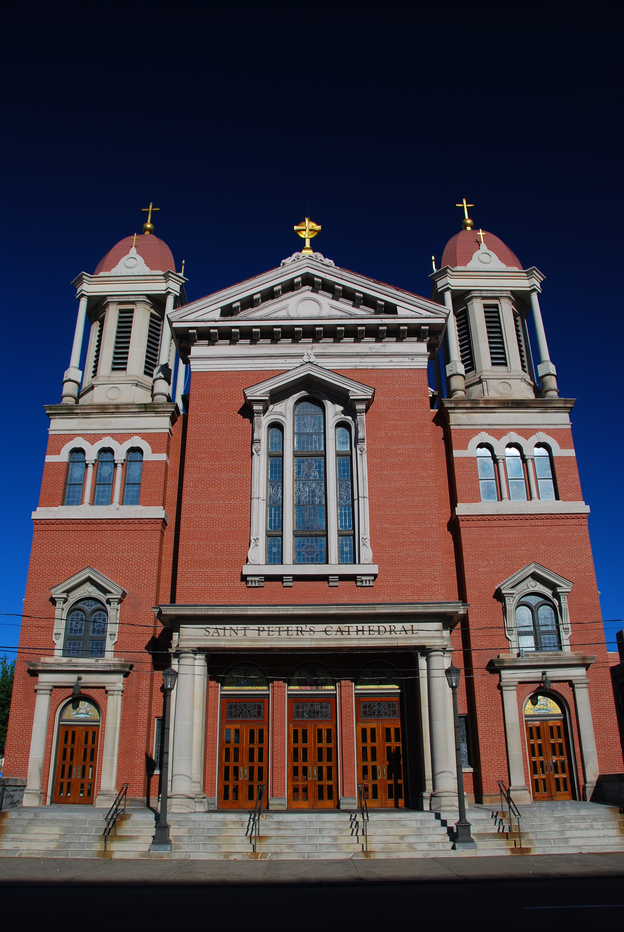 St. Peter's Cathedral, downtown Scranton, PA